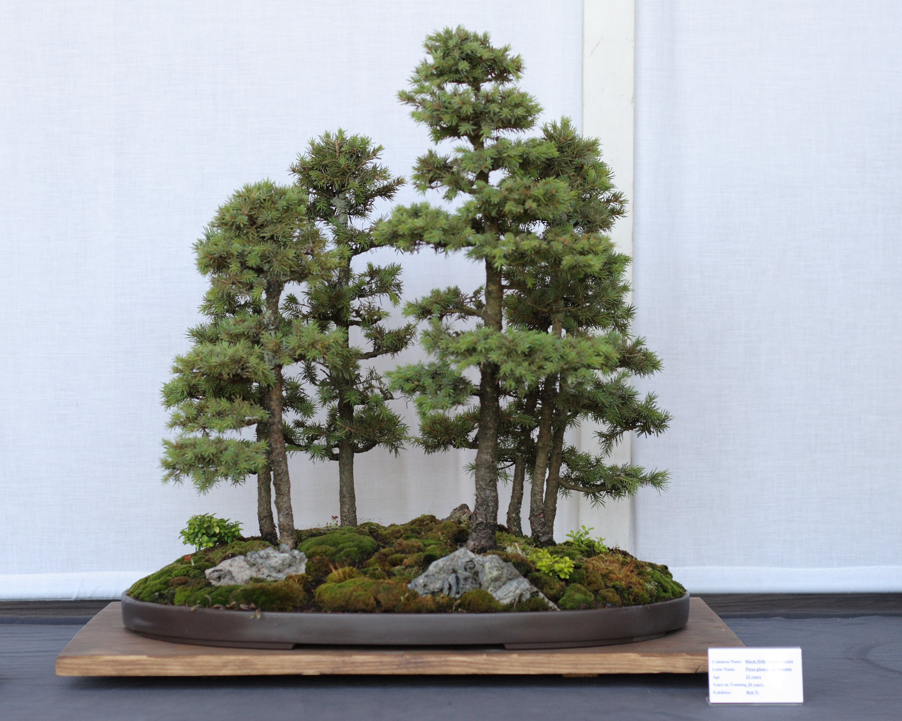 A bonsai forest planting of Black Hills Spruce (Picea glauca var. densata), with small dwarf boxwoods representing shrubs, on display at the 2008 exhibition of the Bonsai Society of Greater Hartford.